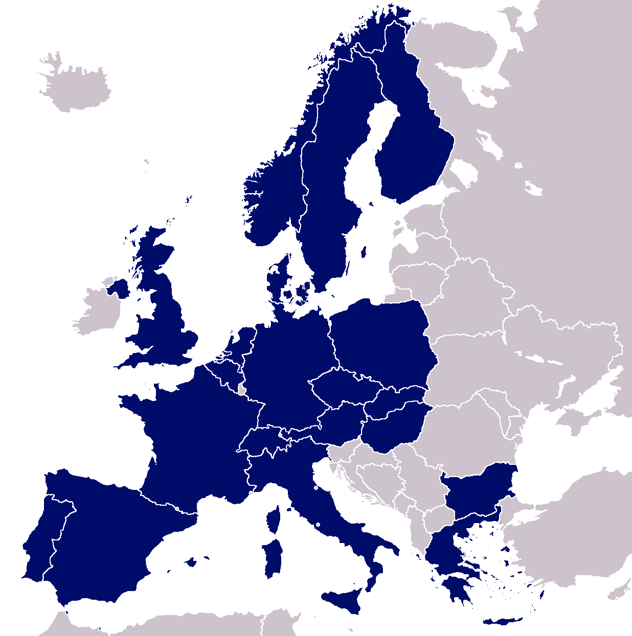 CERN member states in 1999 (map borders from 2008)